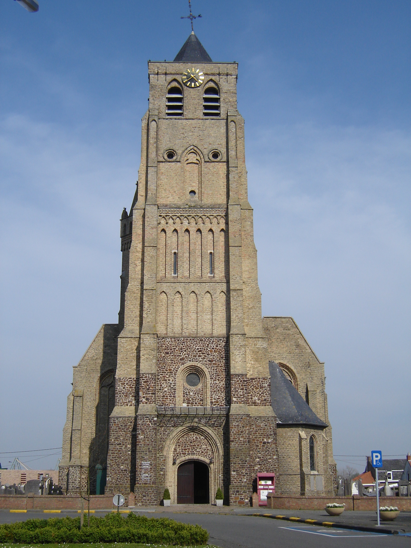 Church of Saint Andrew in Woumen, Diksmuide, West-Flanders, Belgium